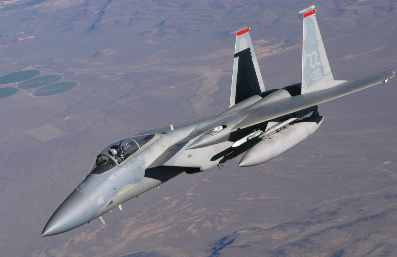 An U.S. Air Force McDonnell Douglas F-15C Eagle (s/n 85-115) from the 67th Fighter Squadron, Kadena Air Base, Japan, breaks away from a Boeing KC-135 Stratotanker assigned to the 185th Air Refueling Wing, Iowa Air National Guard, after being refuled during Red Flag 09-1 at Nellis Air Force Base, Nevada (USA), 24 October 2008.